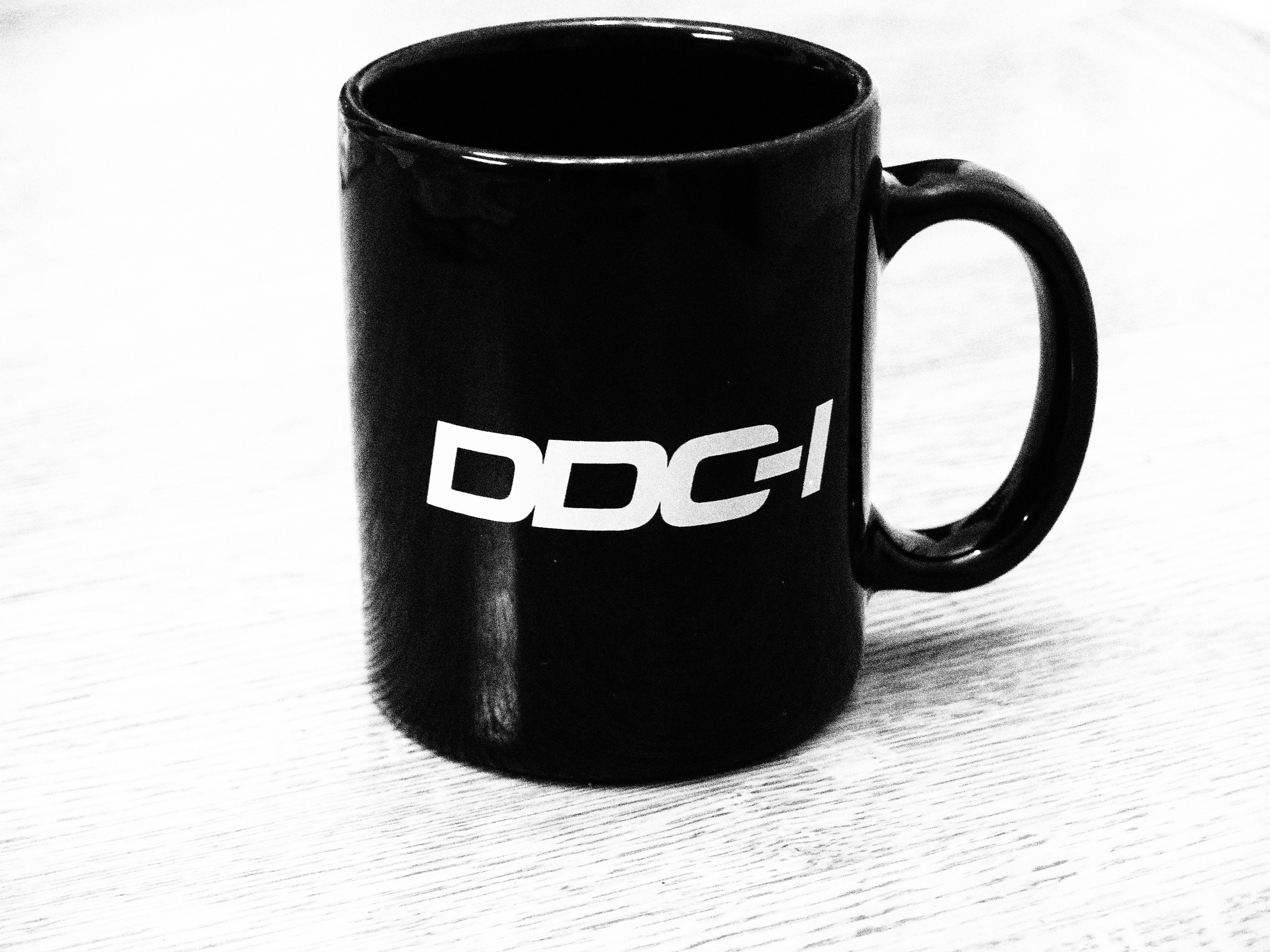 A promotional mug from the DDC-I American subsidiary of the Danish software company DDC International, c. 1993.